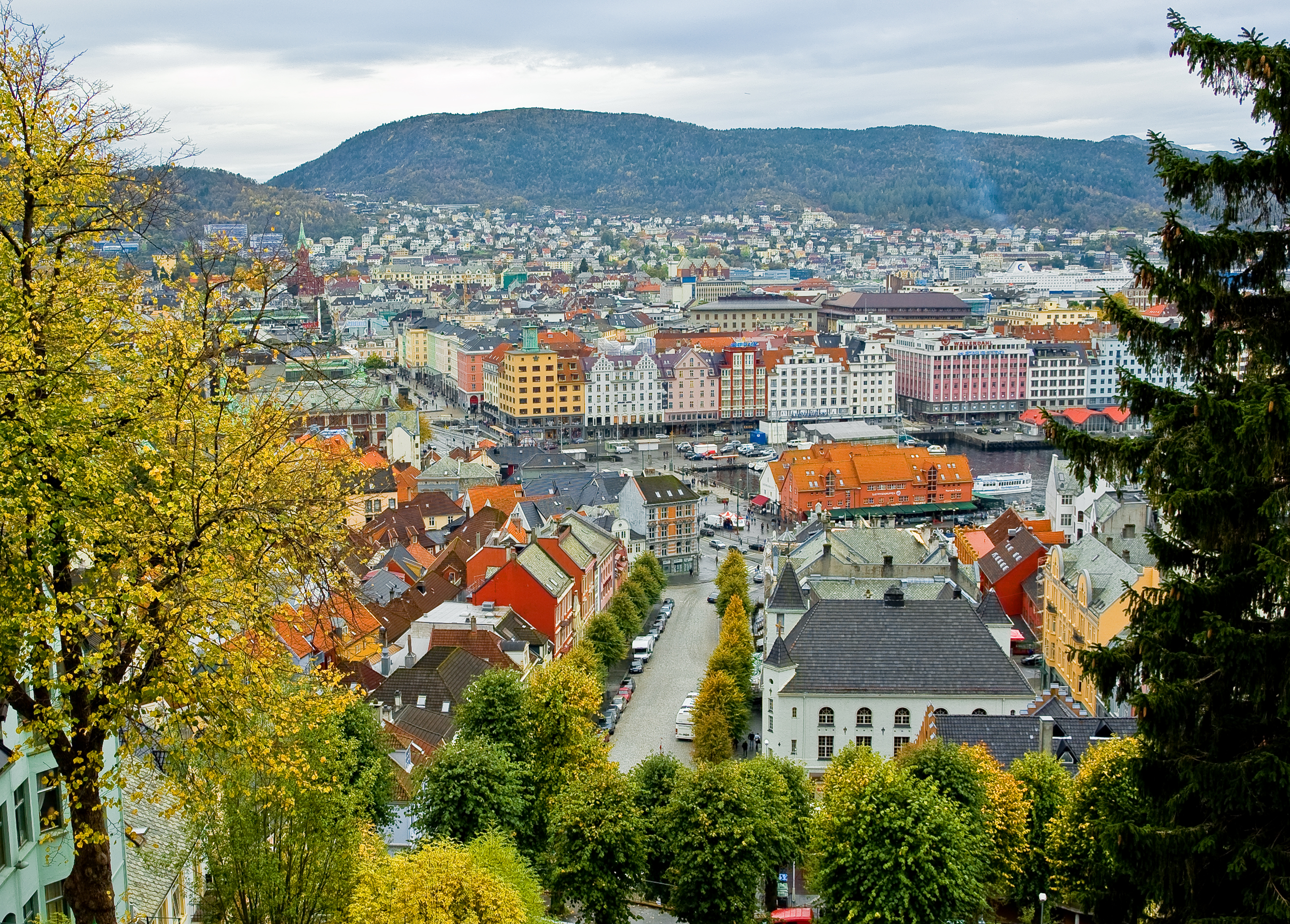 View from Skansen in Bergen, Norway, in September 2007.